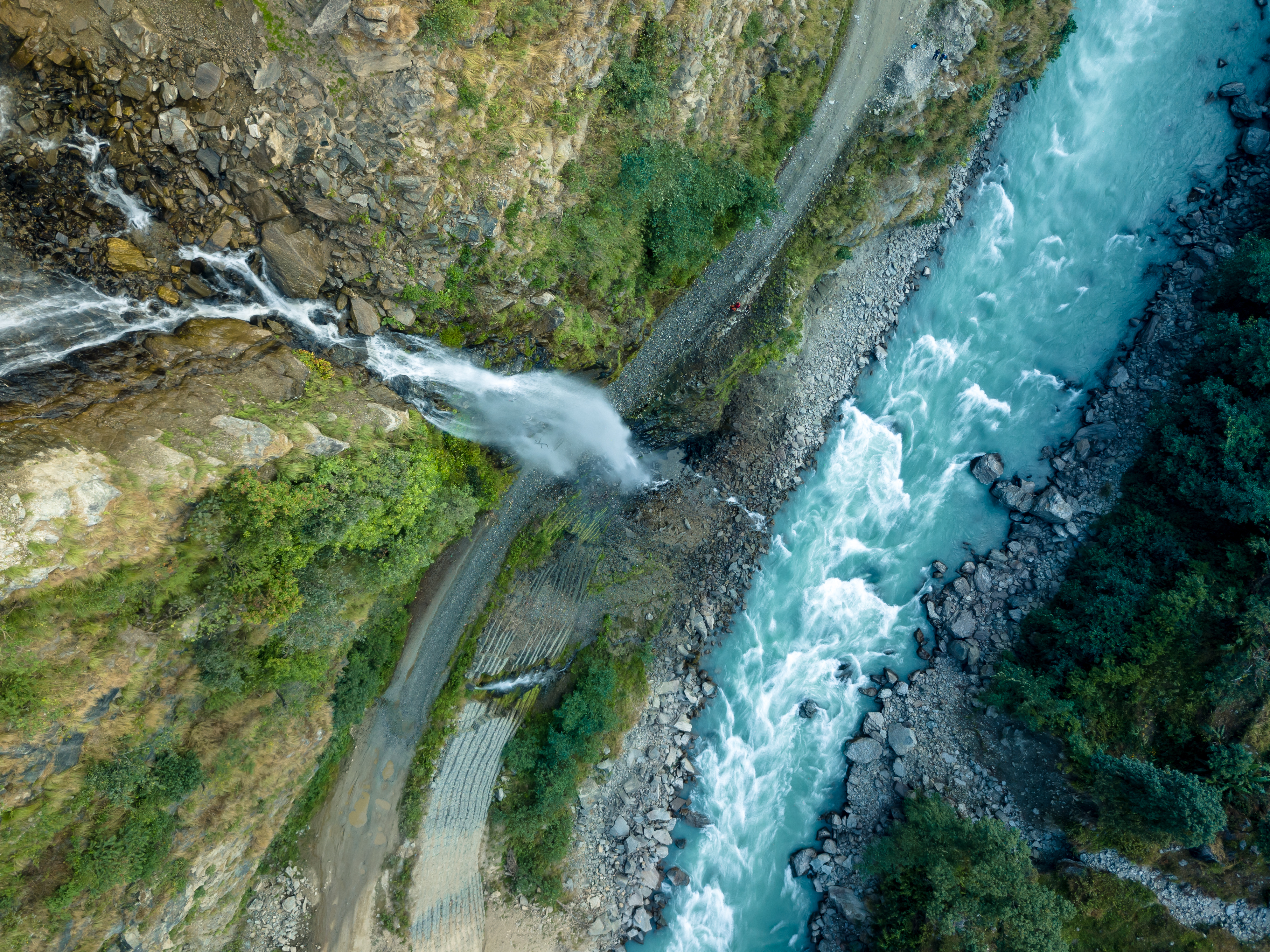 Arial view of Bhorley waterfall of Dolakha and Tamakoshi river.